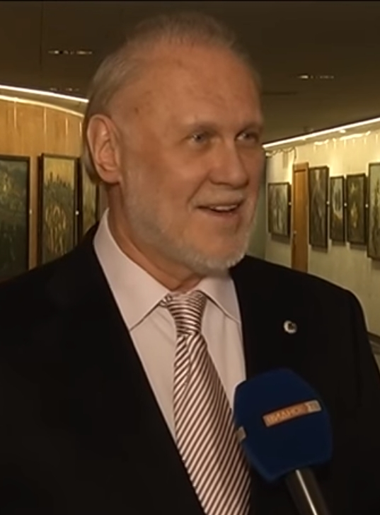 Russian opera vocalist Sergei Leiferkus